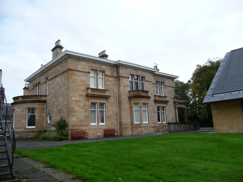 Main house of what was Scotus College. The chapel is on the right of the picture.